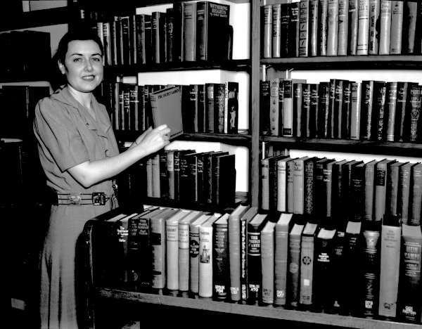 New Orleans, 1940. "The WPA-built branch library on Alvar Street near Burgundy. It serves a thickly populated downtown section and has an overall dimension of 40x60 feet. Opening off the main entrance is a reading room, 40x20 feet. Interior. "